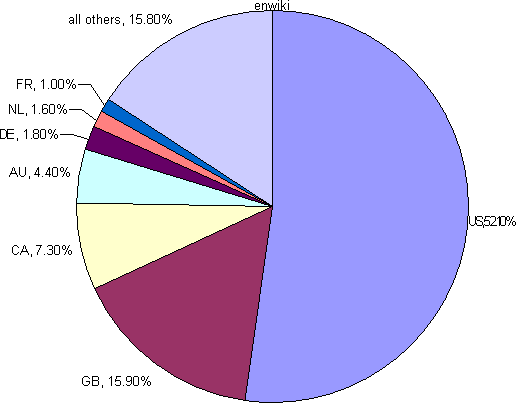 Chart of edits for enwiki, based on Edits by project and country of origin.